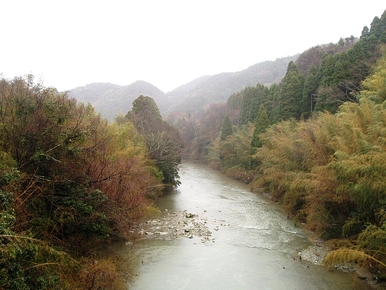 Isumi River near Saniku Gakuin College located in Otaki, Chiba, Japan.